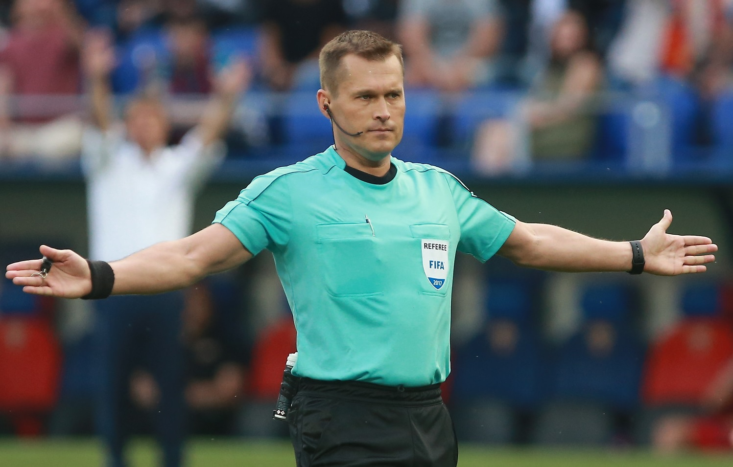 Vladislav Bezborodov refereeing a game between PFC CSKA Moscow and FC Rubin Kazan.